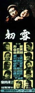 1958 movie poster for 1958 Korean movie First Snow (초설 - Choseol).